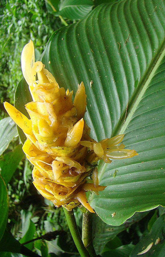 Found from Guatemala to Ecuador. Photo from Sta Elena Reserve, Costa Rica. In context at